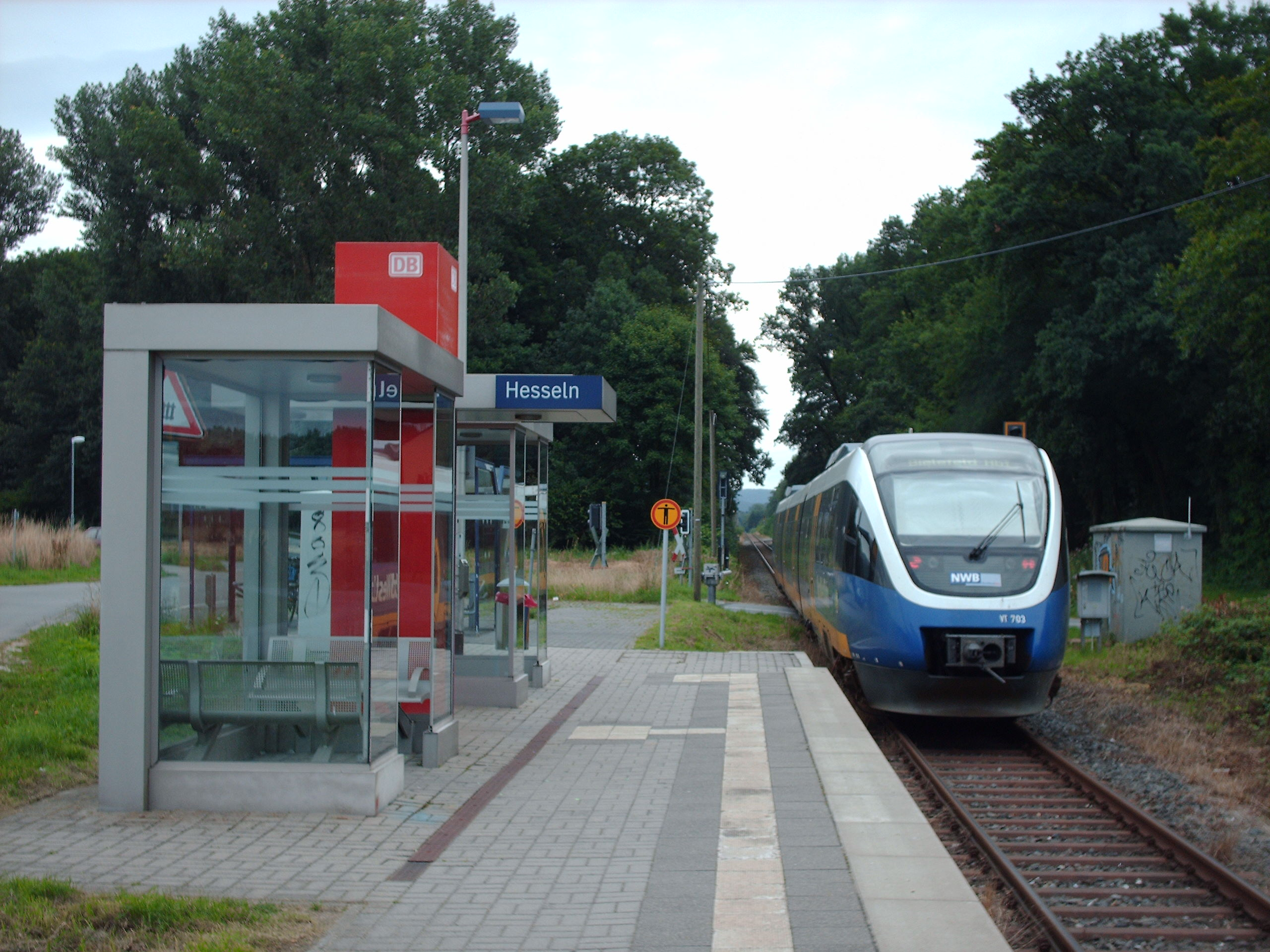 Hesseln station, Halle (Westfalen), Germany check usage